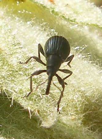 Apion longirostre = Rhopalapion longirostre on Alcea rosea